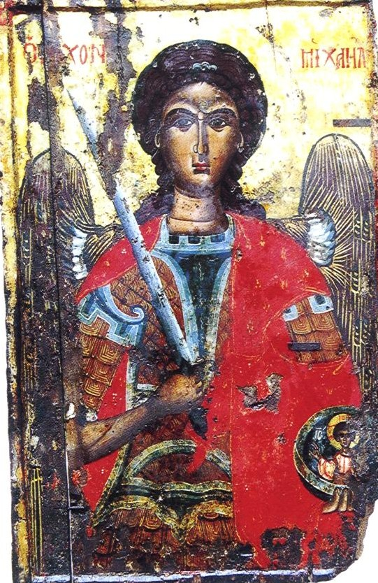 Icon of Saint Micahel in Paleocjori, Chalcidice, Greece